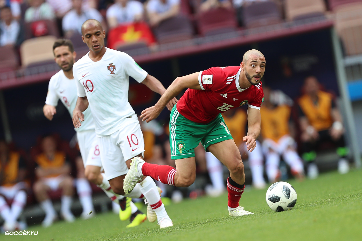 Portugal-Morocco match, 2018 FIFA World Cup